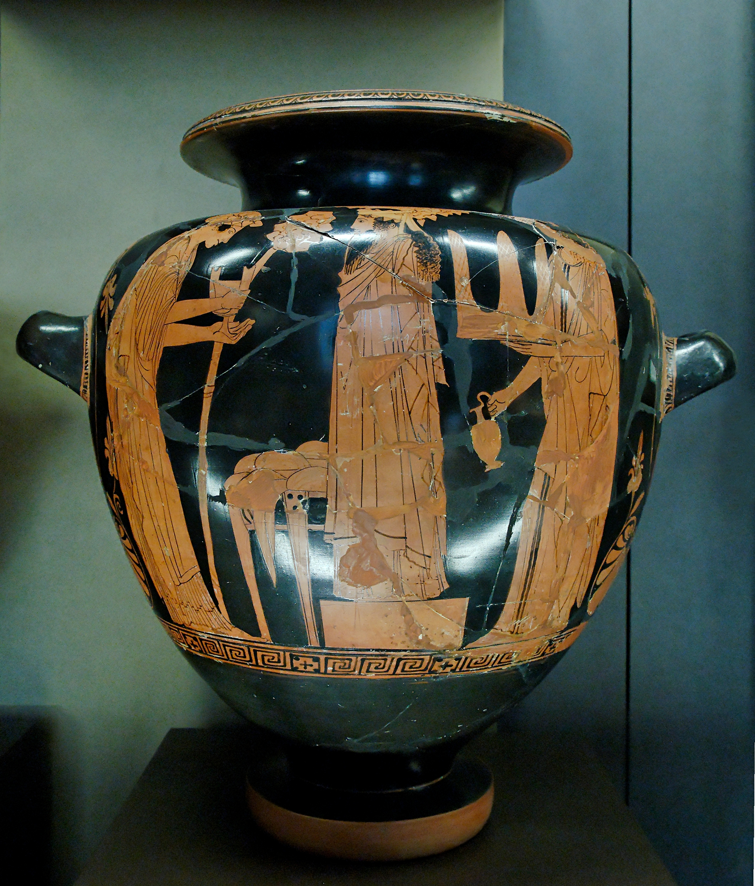 Dionysiac cult. Attic red-figure stamnos, ca. 450-440 BC. From Vulci.